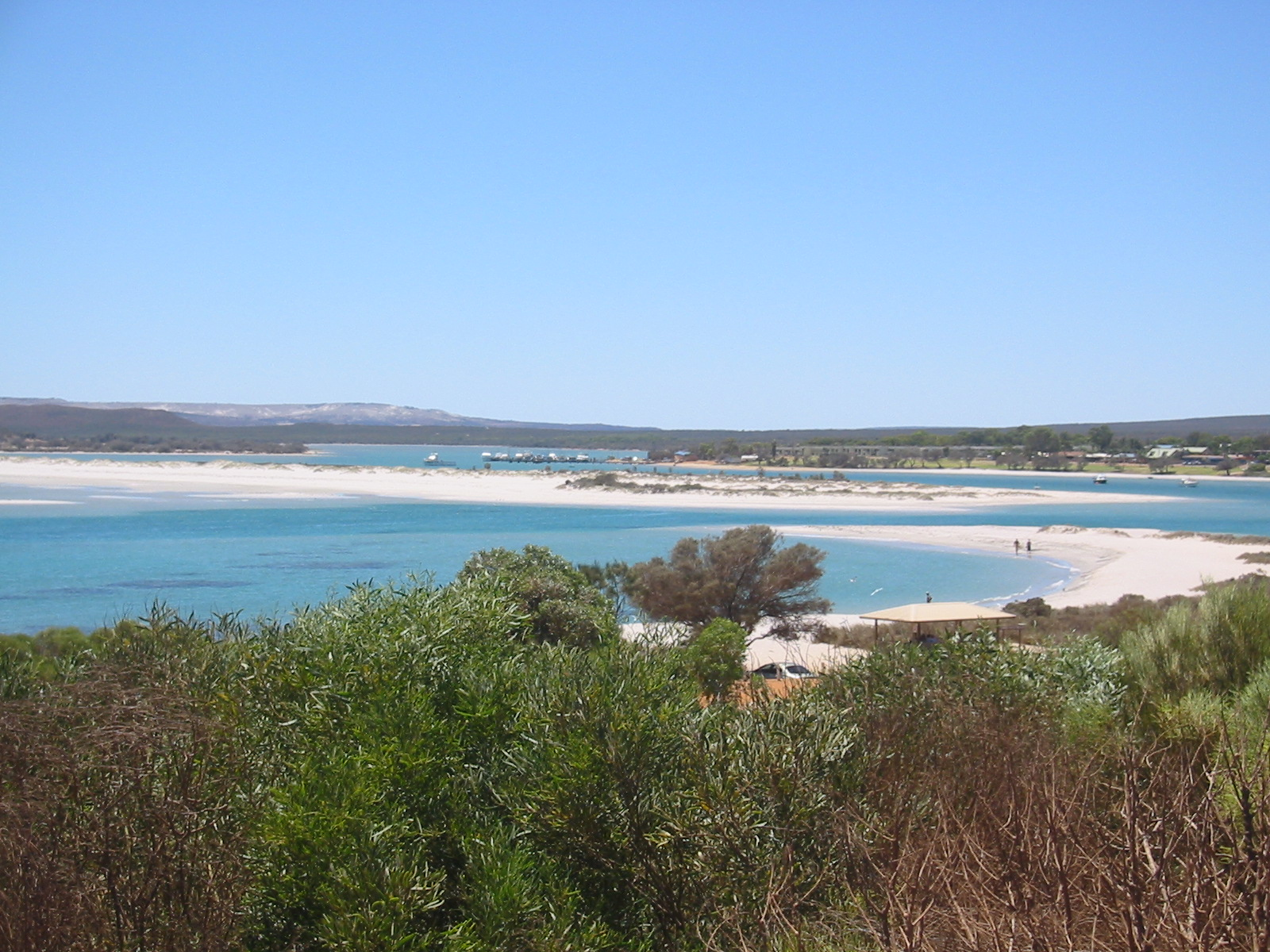 at this point the Murchison River flows into the Indian Ocean - Kalbarri - Western Australia